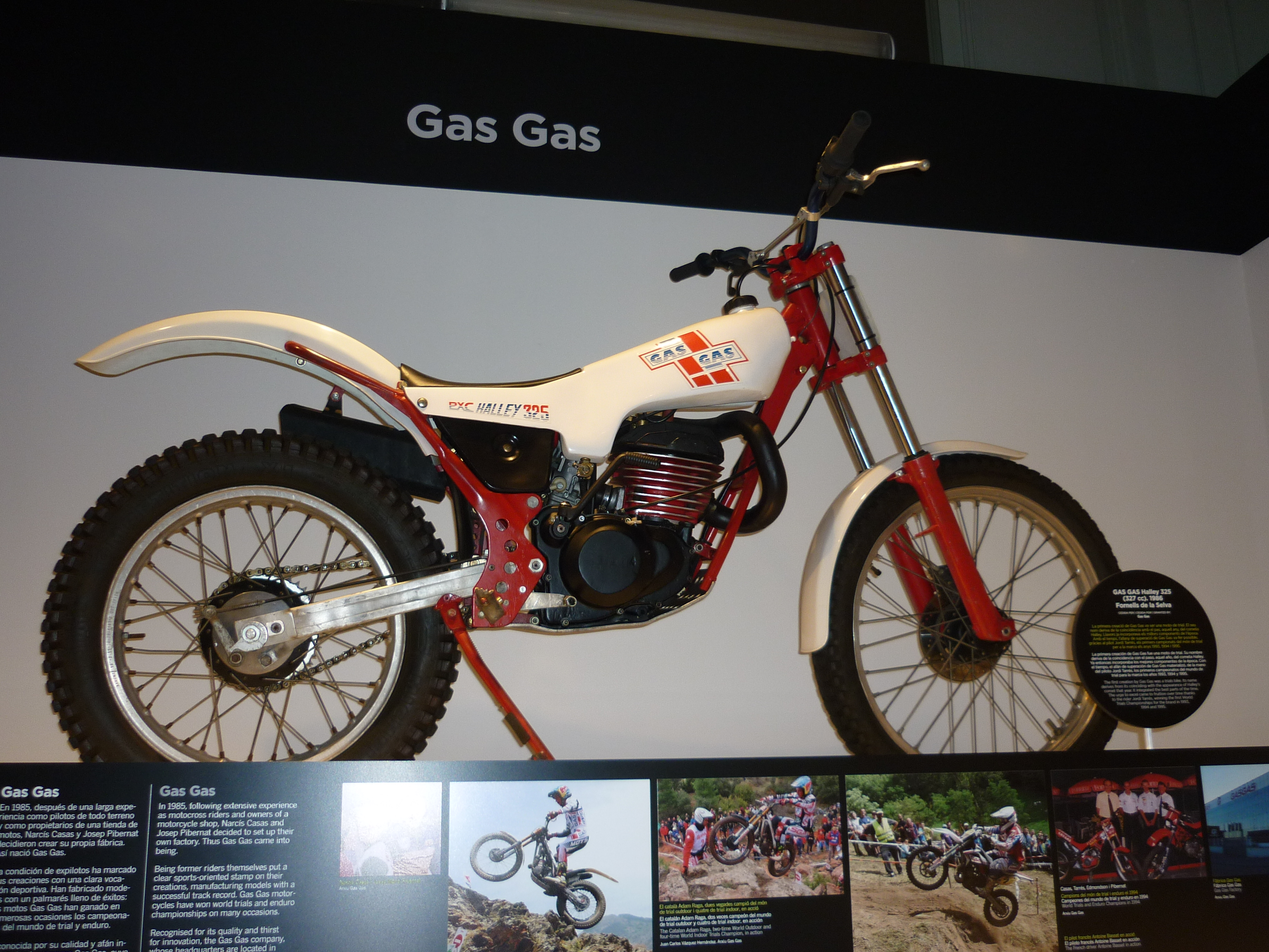 Gas Gas Halley 325 (327 cc), 1986